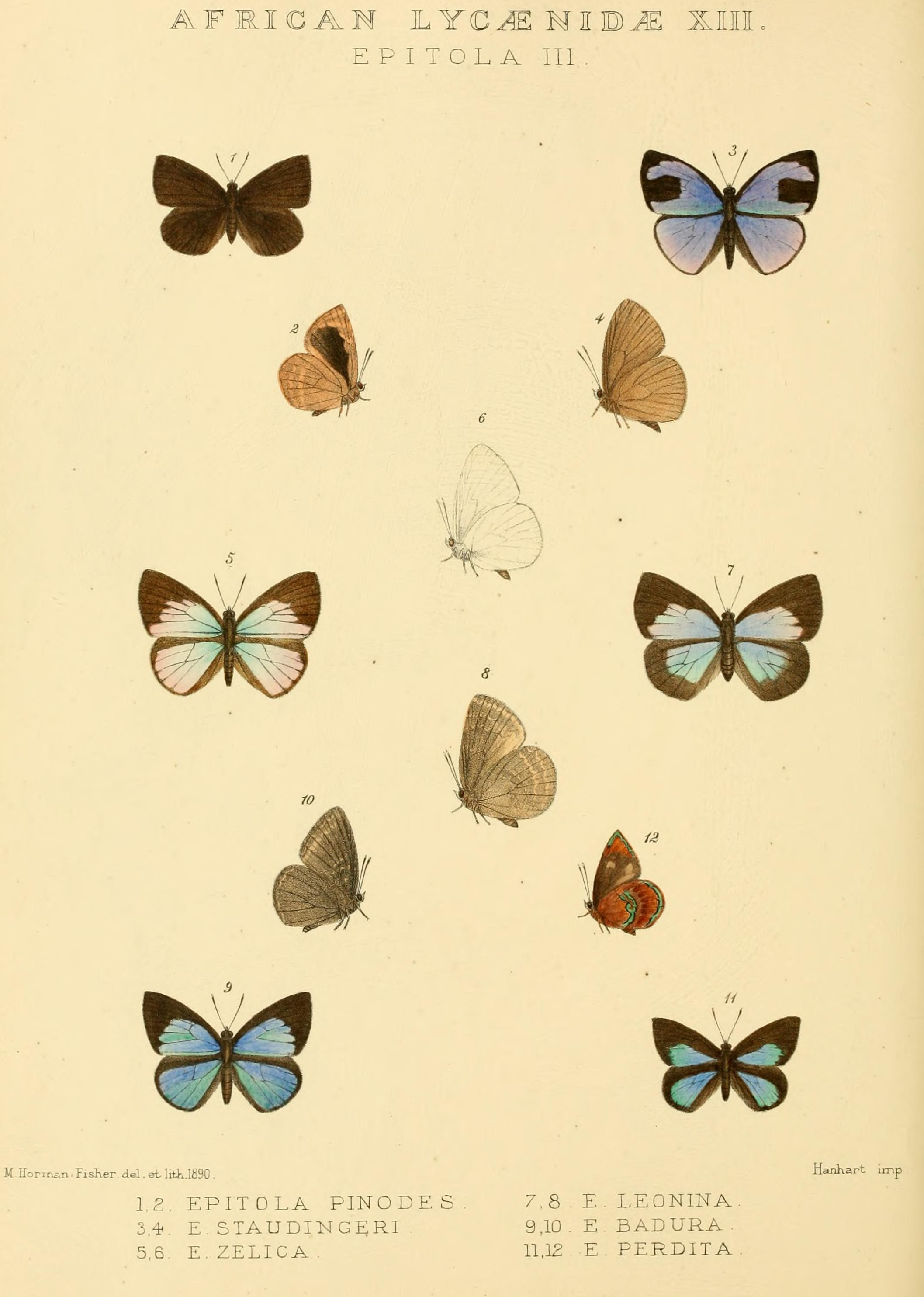 Grose-Smith, H. & Kirby, W.F. (1887-1892): Rhopalocera exotica, being illustrations of new, rare and unfigured species of butterflies London 1:x, [1-183]. African Lycaenidae Epitola Plate 13 Epitola pinodes synonym for Cephetola pinodes (Druce, 1890) Epitola staudingeri synonym for Stempfferia staudingeri (Kirby, 1890 Epitola zelica synonym for Geritola zelica (Kirby, 1890) Epitola leonina synonym for Stempfferia leonina (Staudinger, 1888) Epitola badura synonym for Stempfferia badura (Kirby, 1890) Epitola perdita synonym for Iridana perdita (Kirby, 1890)